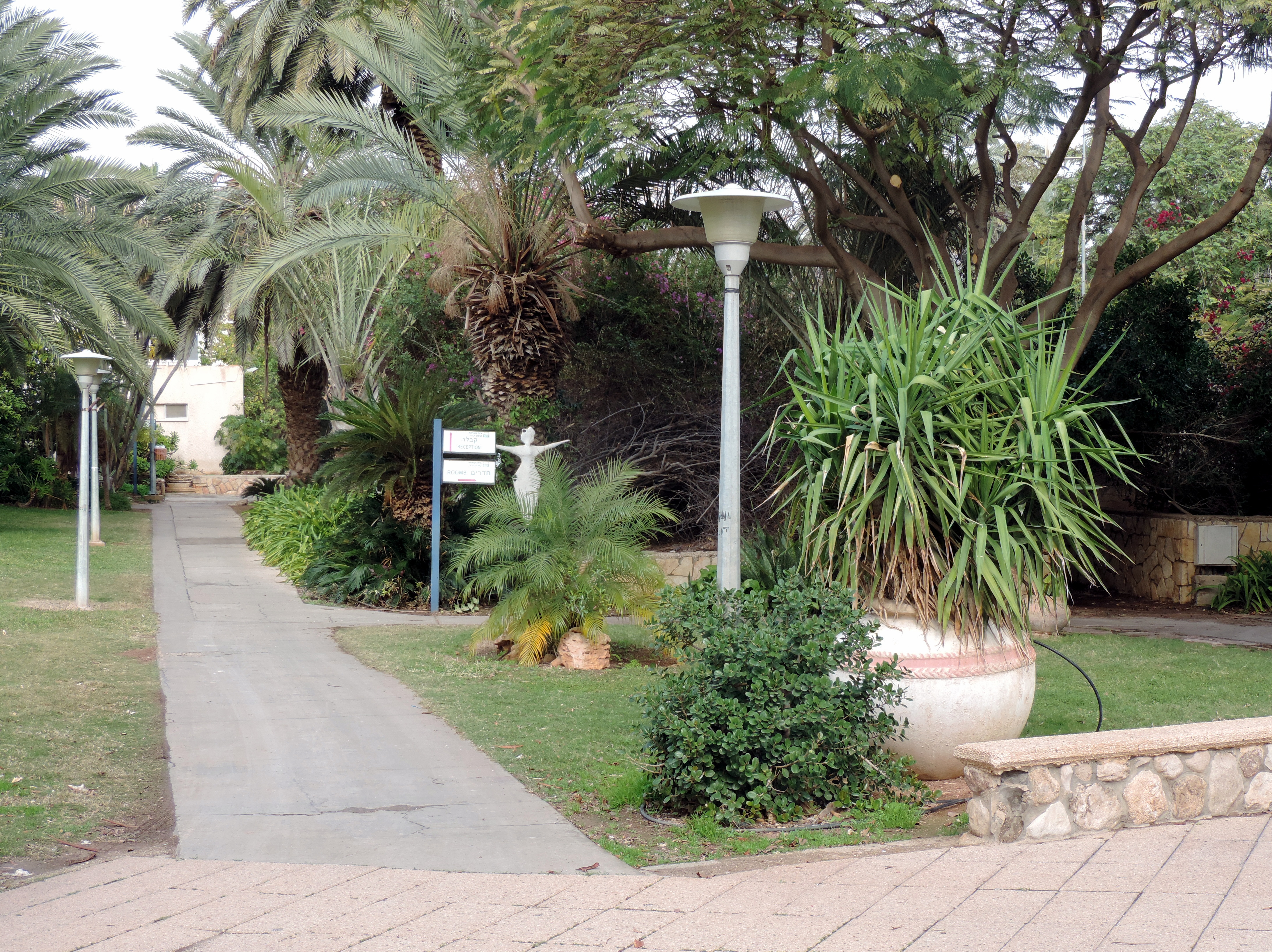 Kibbutz Kalia near the Dead Sea